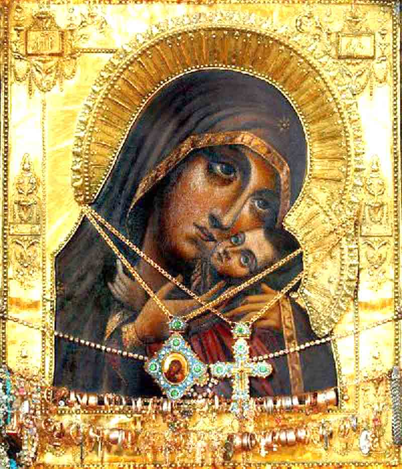 Icon of the Mother of God of Kasperov. (Assumption (Uspenski) Cathedral - Odessa, XVI c.)